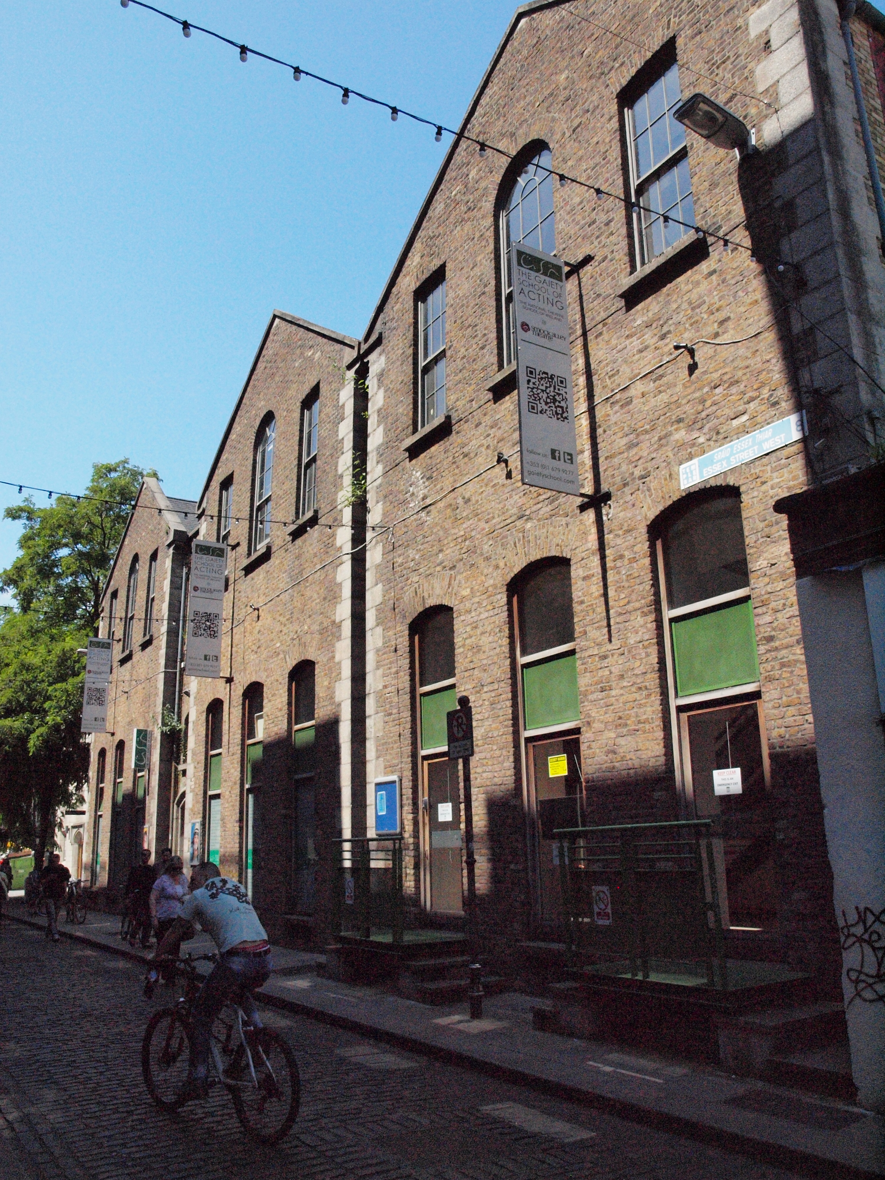 The Gaiety School of Acting